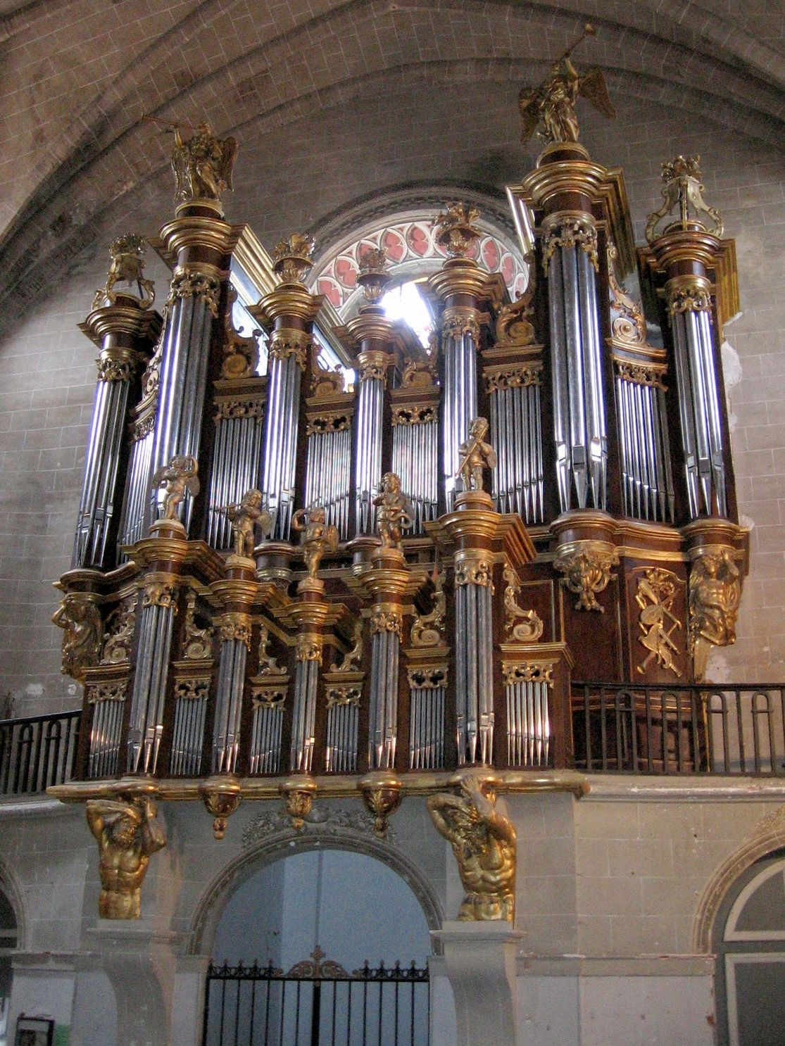 Organ of église Sainte-Marie (Cintegabelle)